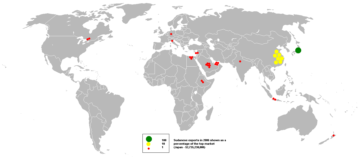 This bubble map shows the global distribution of Sudanese exports in 2006 as a percentage of the top market (Japan - $2,735,230,000). This map is consistent with incomplete set of data too as long as the top producer is known. It resolves the accessibility issues faced by colour-coded maps that may not be properly rendered in old computer screens. Data was extracted on 19th September 2007 from Based on :Image:BlankMap-World.png